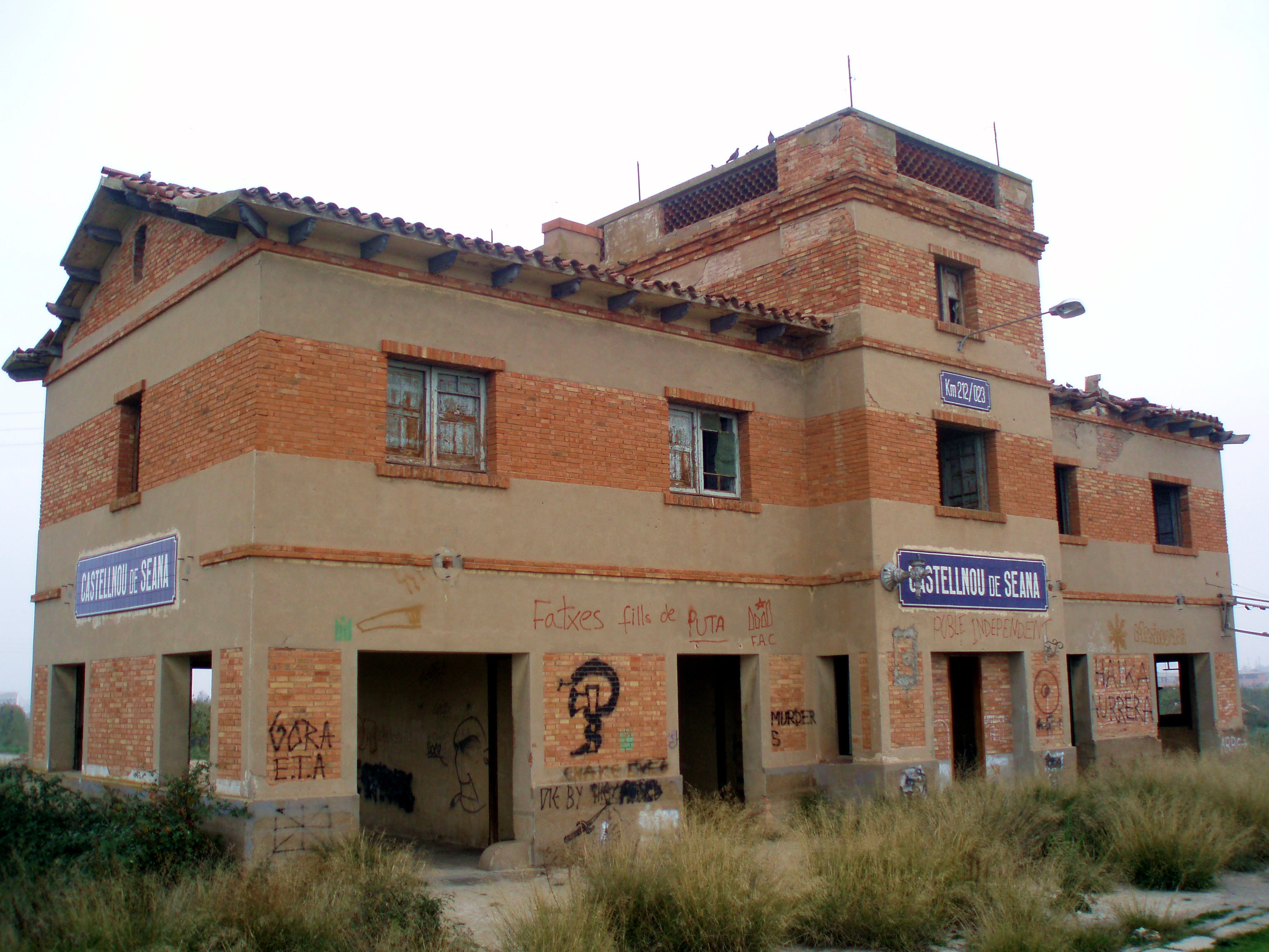 Castellnou de Seana station building seen from the platform.